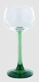 wine glass of Alsace